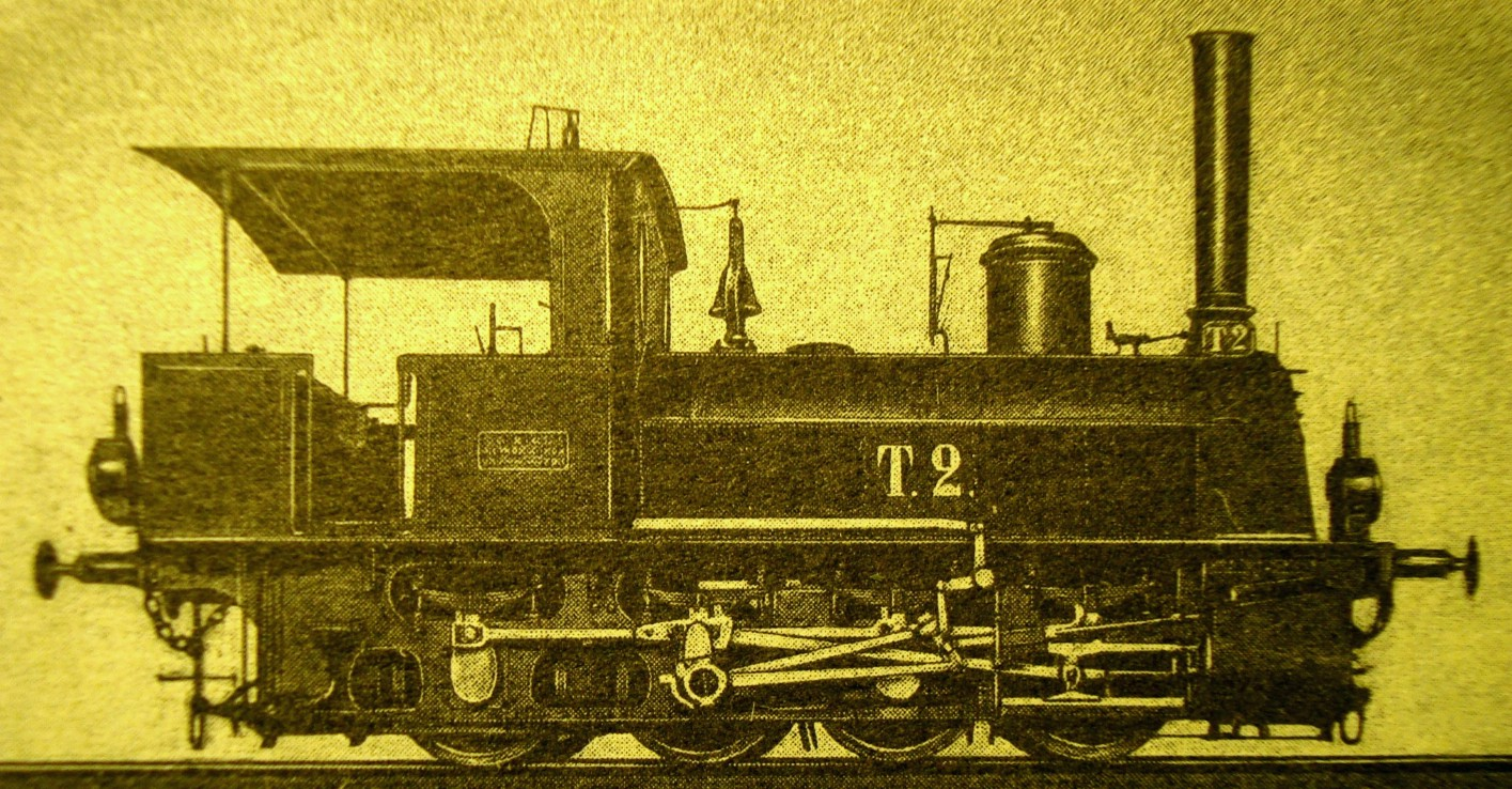 Russian tank loc At series (Siegl)